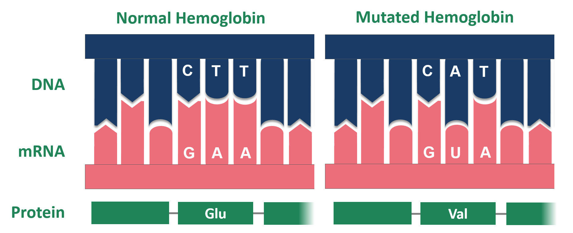 Diagram showing a part of the normal and mutated DNA strand, resulting change in mRNA and amino acid sequence.